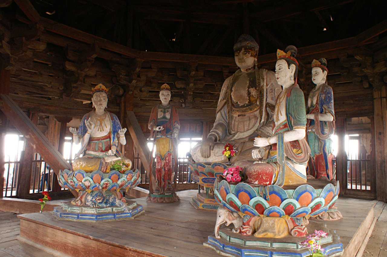 The statuary inside the wooden tower of Ying county 中國山西應縣木塔